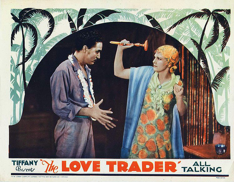 Lobby card for the American romance drama film The Love Trader (1930).